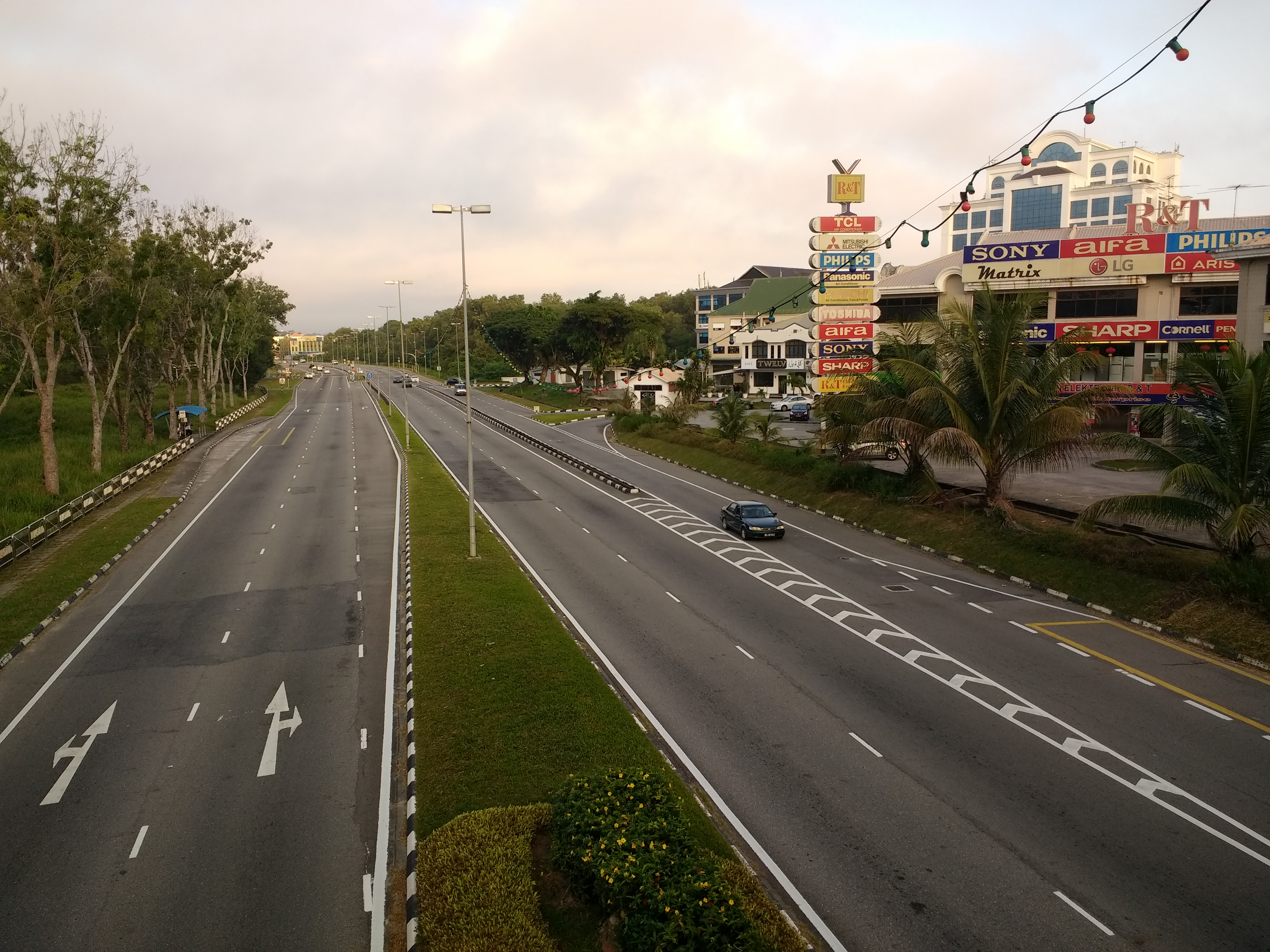 Jalan Jame'Asr, a road in Kiulap, Bandar Seri Begawan, Brunei.